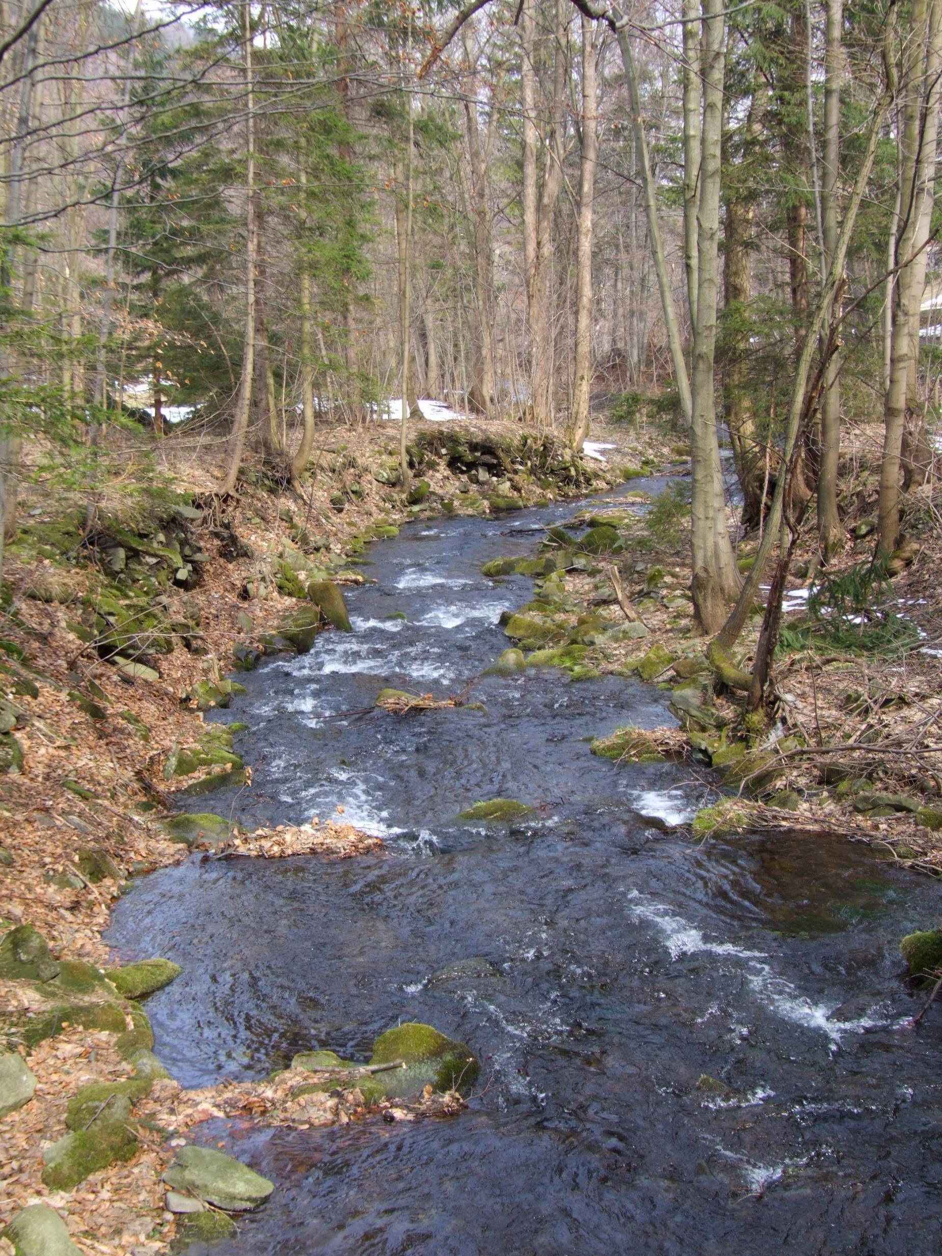 River (stream) Tyrka in Tyra, part of city Třinec, Cieszyn Silesia